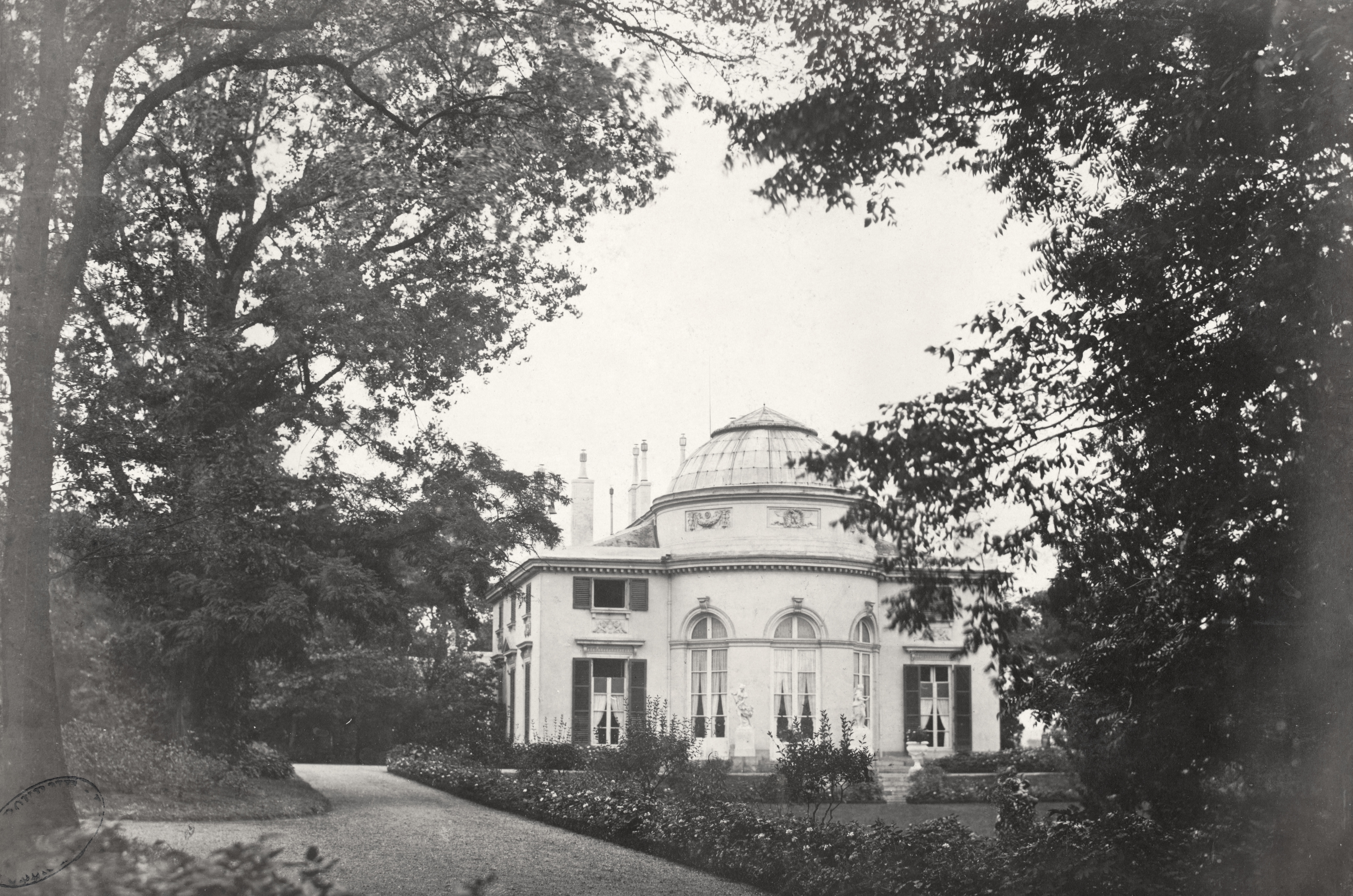 Looking across lawn and garden towards building with bow window and domed roof.